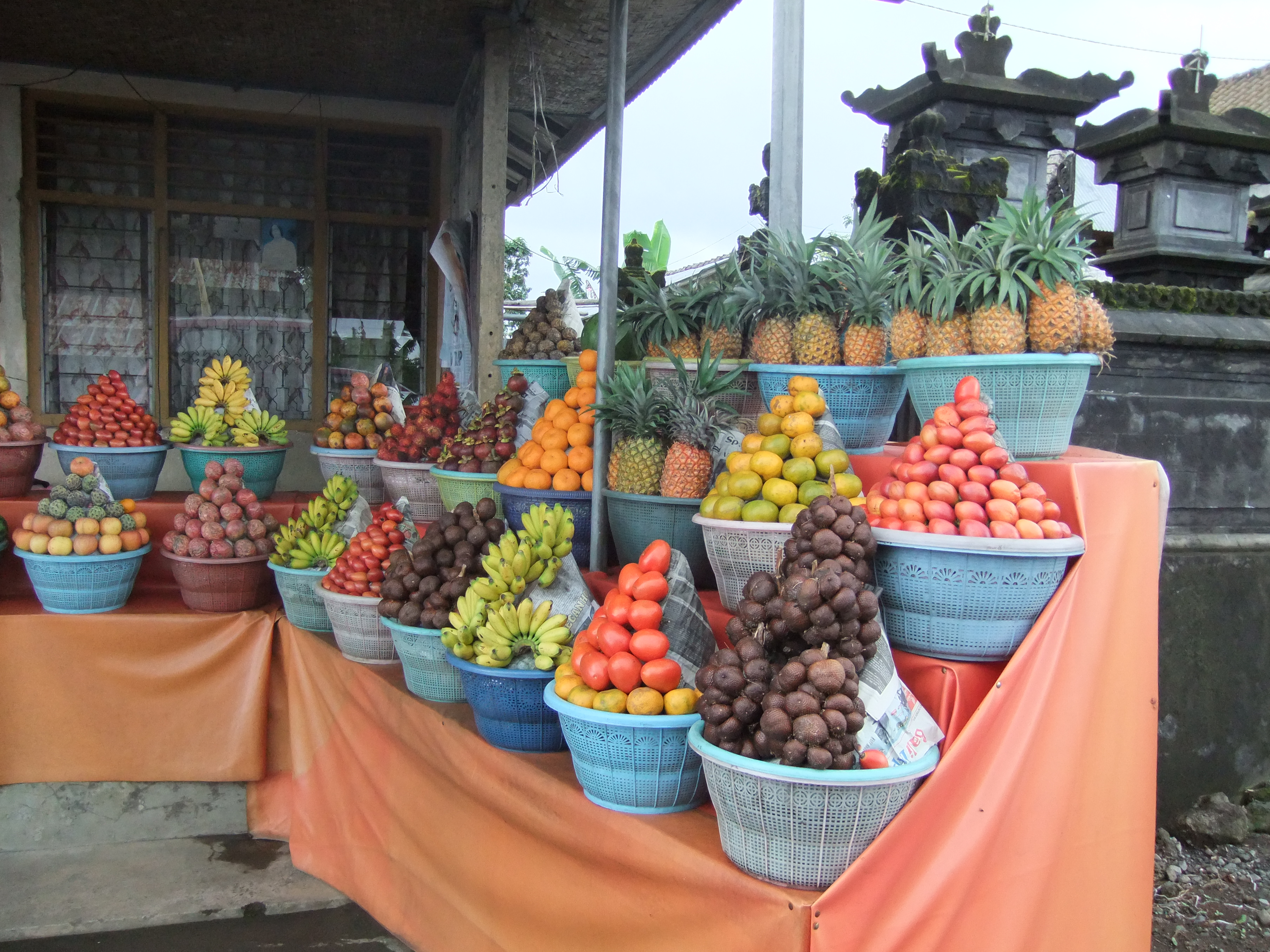 Fruit stall in Bali